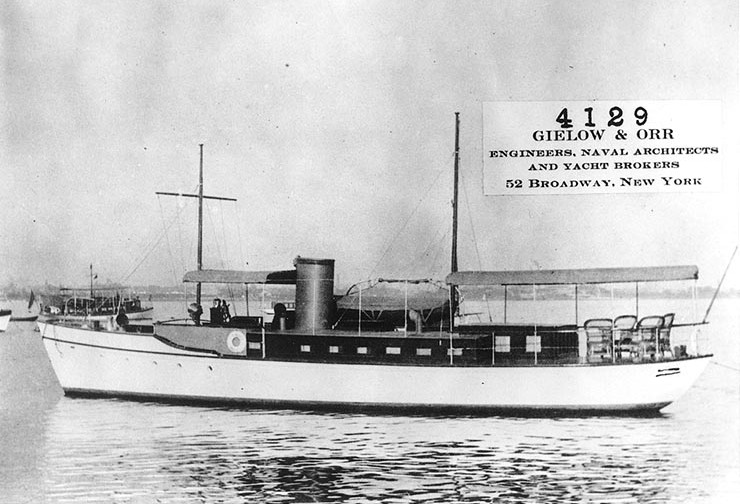 From U.S. Navy public domain Photo #: NH 100651 Almax II (American Motor Boat, 1912) In harbor, prior to World War I. Acquired by the Navy on 18 May 1917, she served as USS Almax II (SP-268) during World War I. She was transferred to the Coast and Geodetic Survey on 28 March 1919 and sold on 23 August 1920.